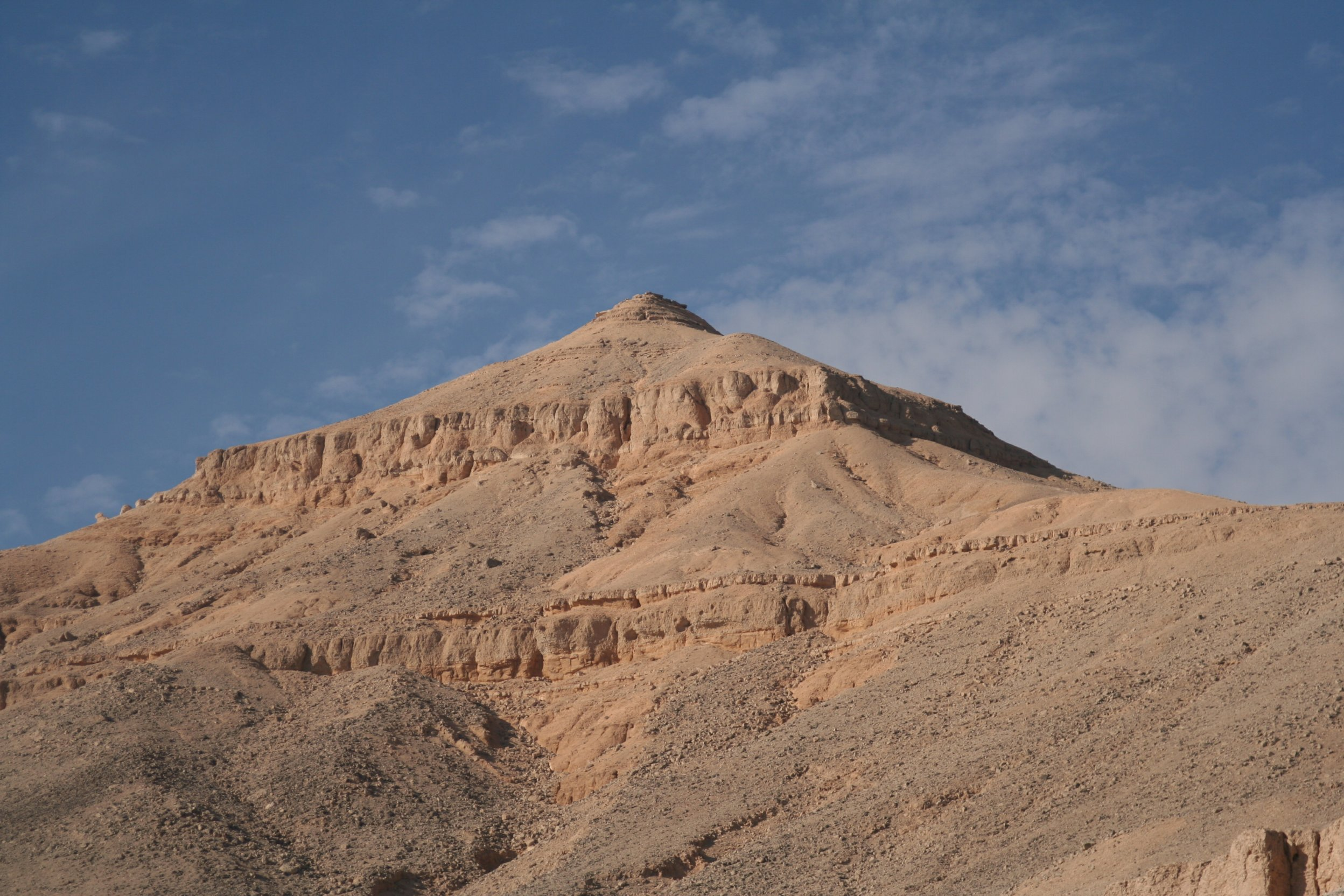 Meretseger/Al-Qurn - The natural pyramid over the valley of the kings, Luxor, West Bank.